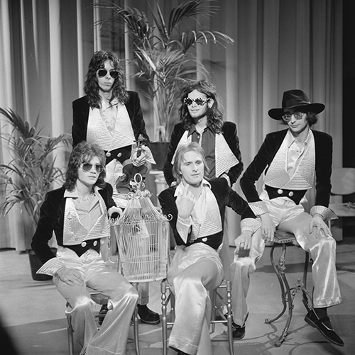 Steve Harley & Cockney Rebel in AVRO's TopPop (Dutch television show) in 1974